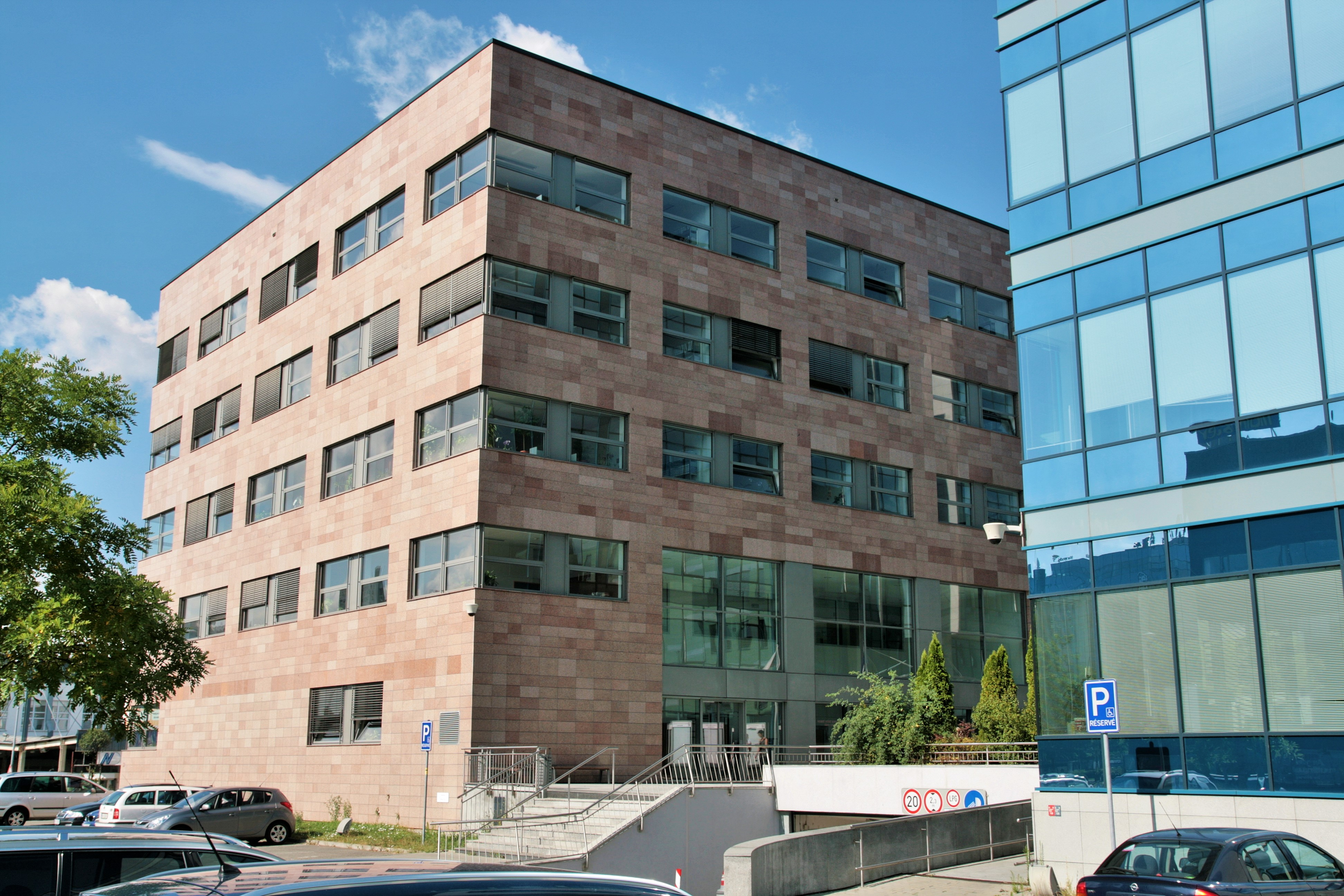 Judicial complex in Štýřice, Brno, Czech Republic.